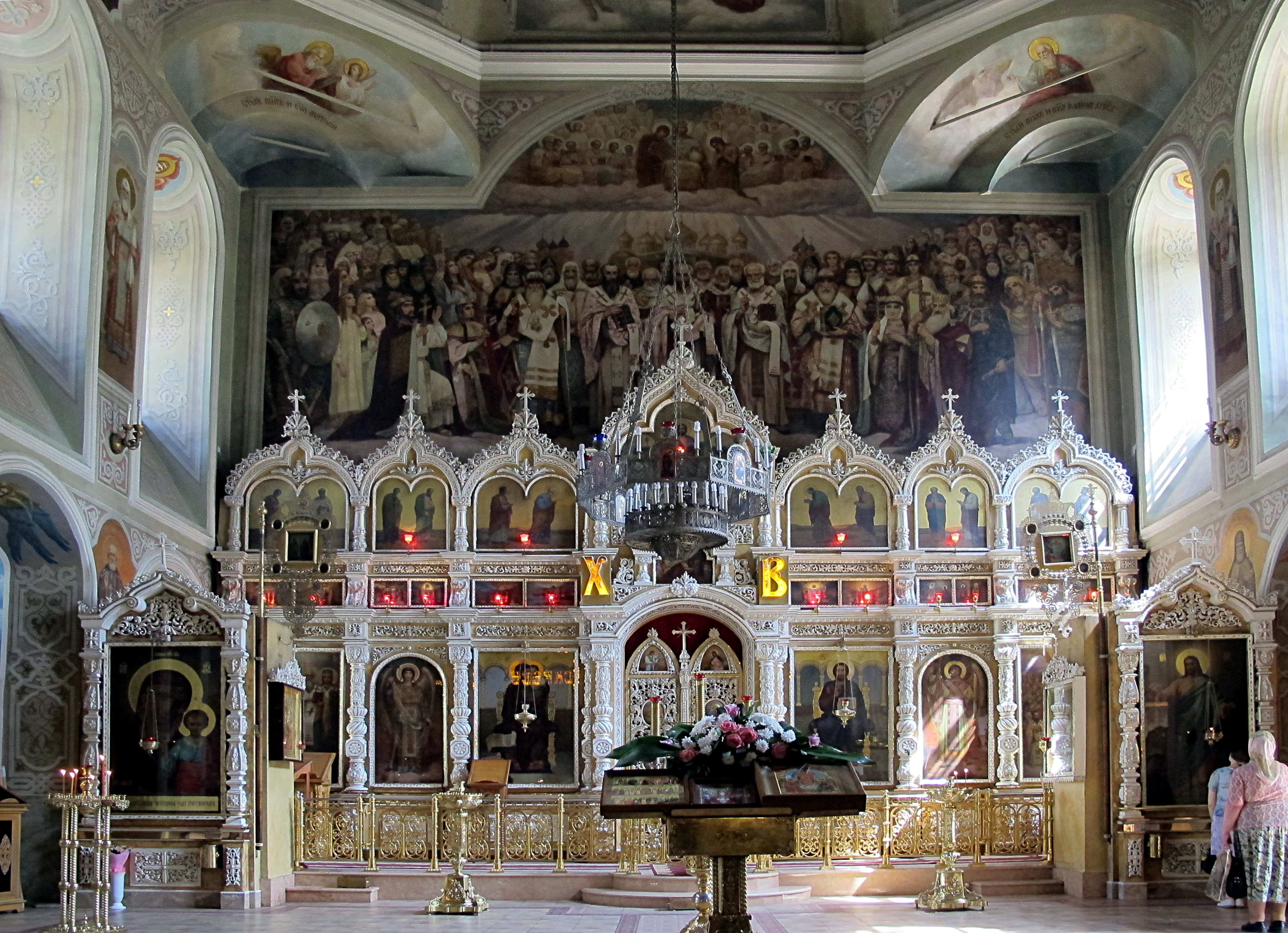 All Saints Church at Vsekhsvyatskoye (Sokol; Moscow; 2013-05-18).